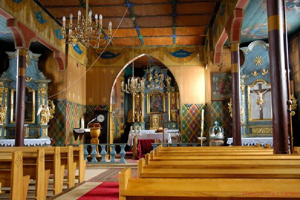 NAWA_GLOWNA2_N_NMP_NIEKRASOW